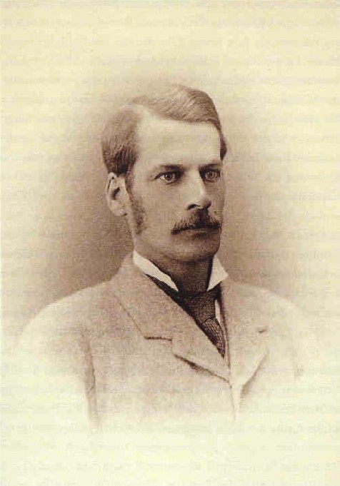 Sir Ernest Mason Satow PC, GCMG, (30 June 1843 – 26 August 1929), known in Japan as "アーネスト・サトウ" (Ānesuto Satō), known in China as (traditional Chinese) "薩道義" or (simplified Chinese) "萨道义", was a British scholar, diplomat and Japanologist.